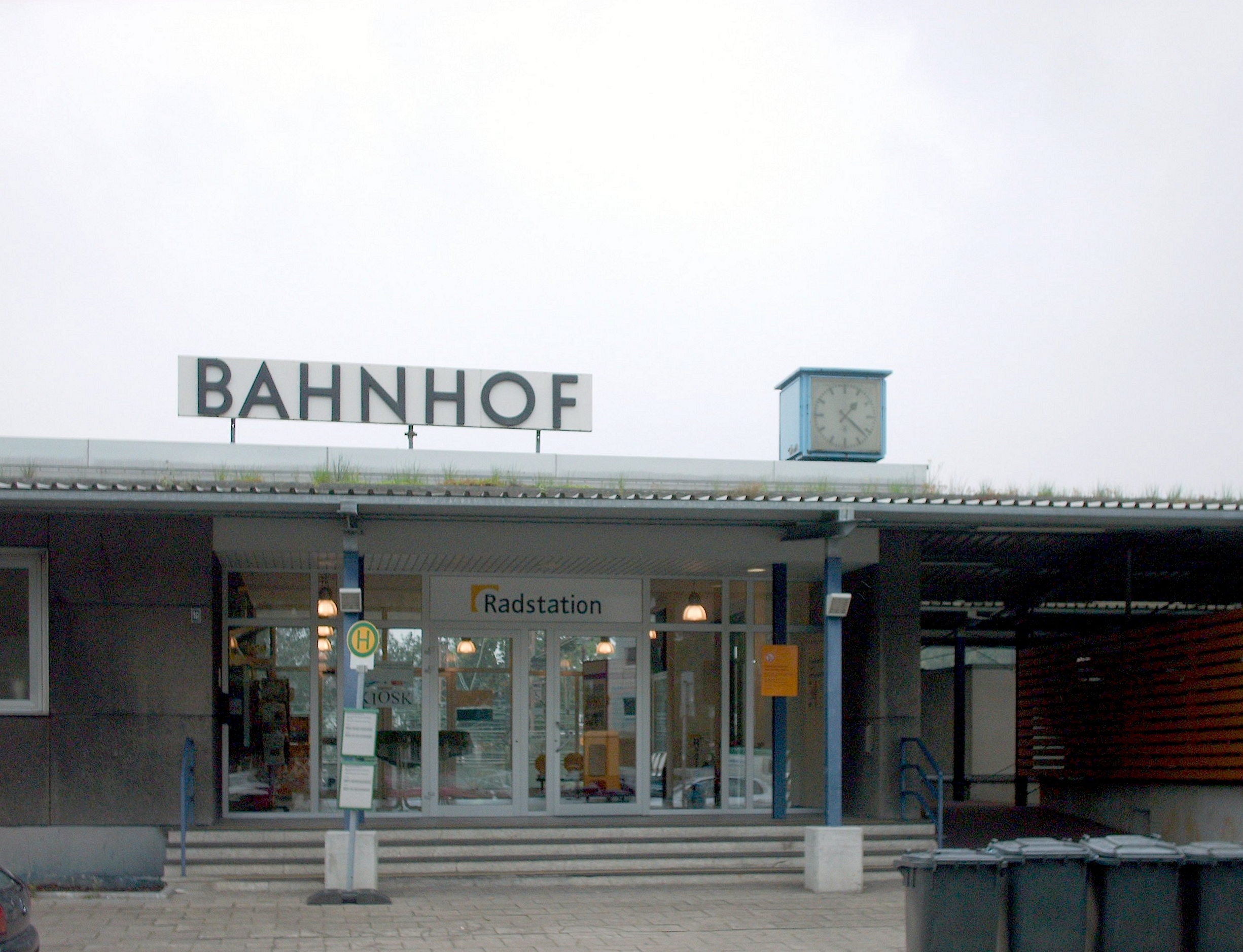 Gladbeck West station, Gladbeck, Germany check usage